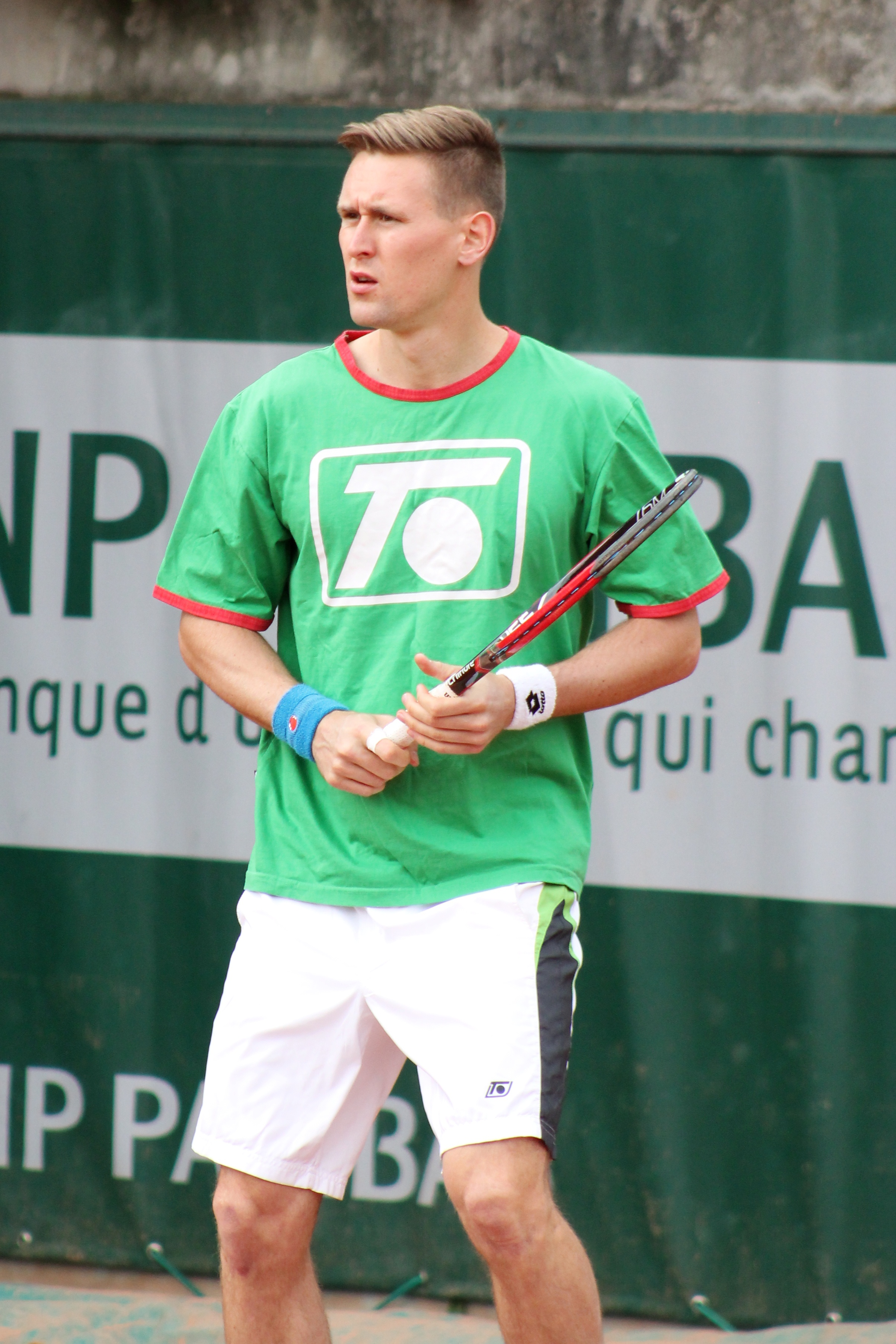 Photograph of Mateusz Kowalczyk practicing at Roland Garros on 28 May 2013